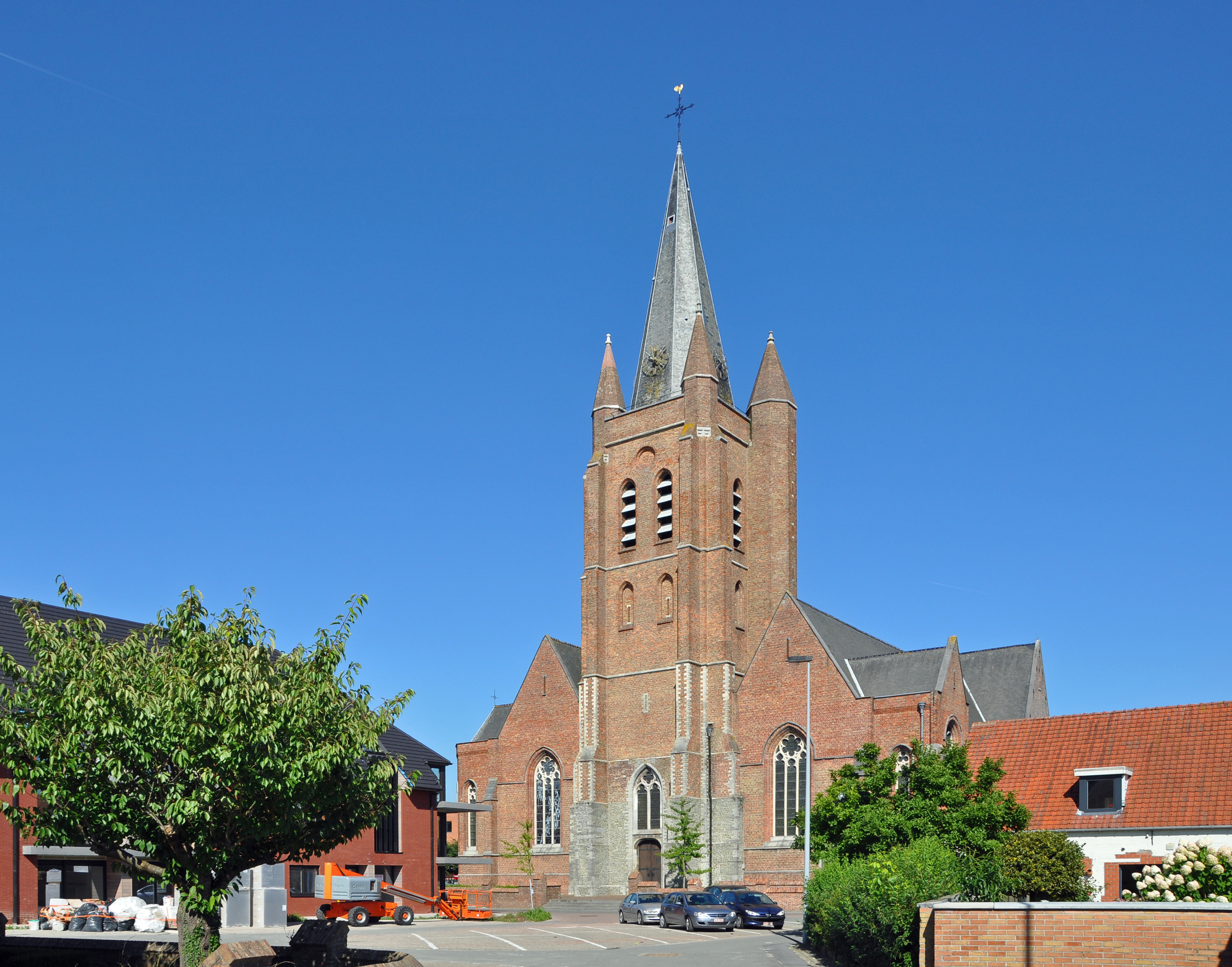 Ruddervoorde (municipality of Oostkamp, Belgium): St Eligius church